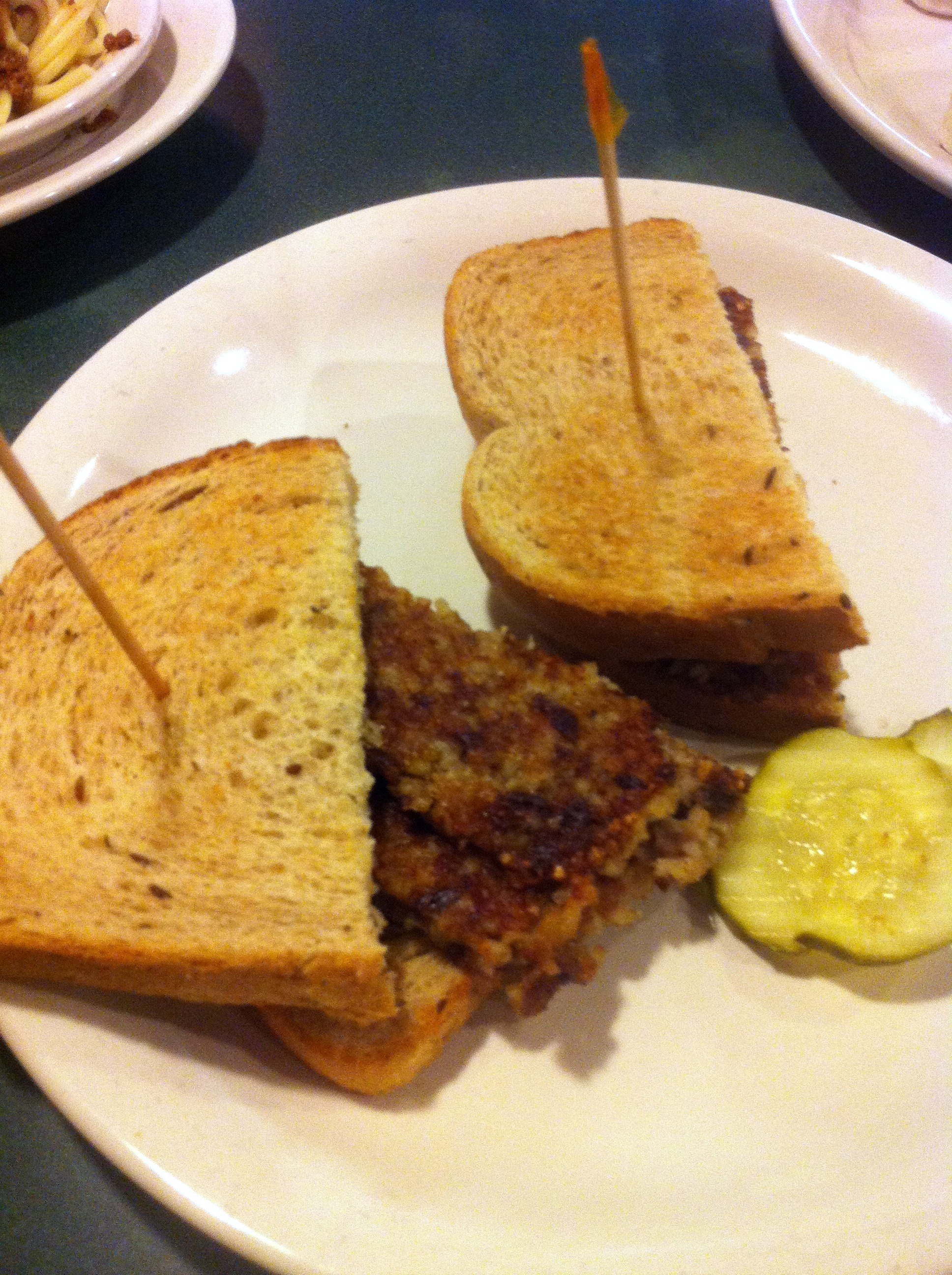 Cincinnati, OH July 2011 (cc) David Berkowitz - /